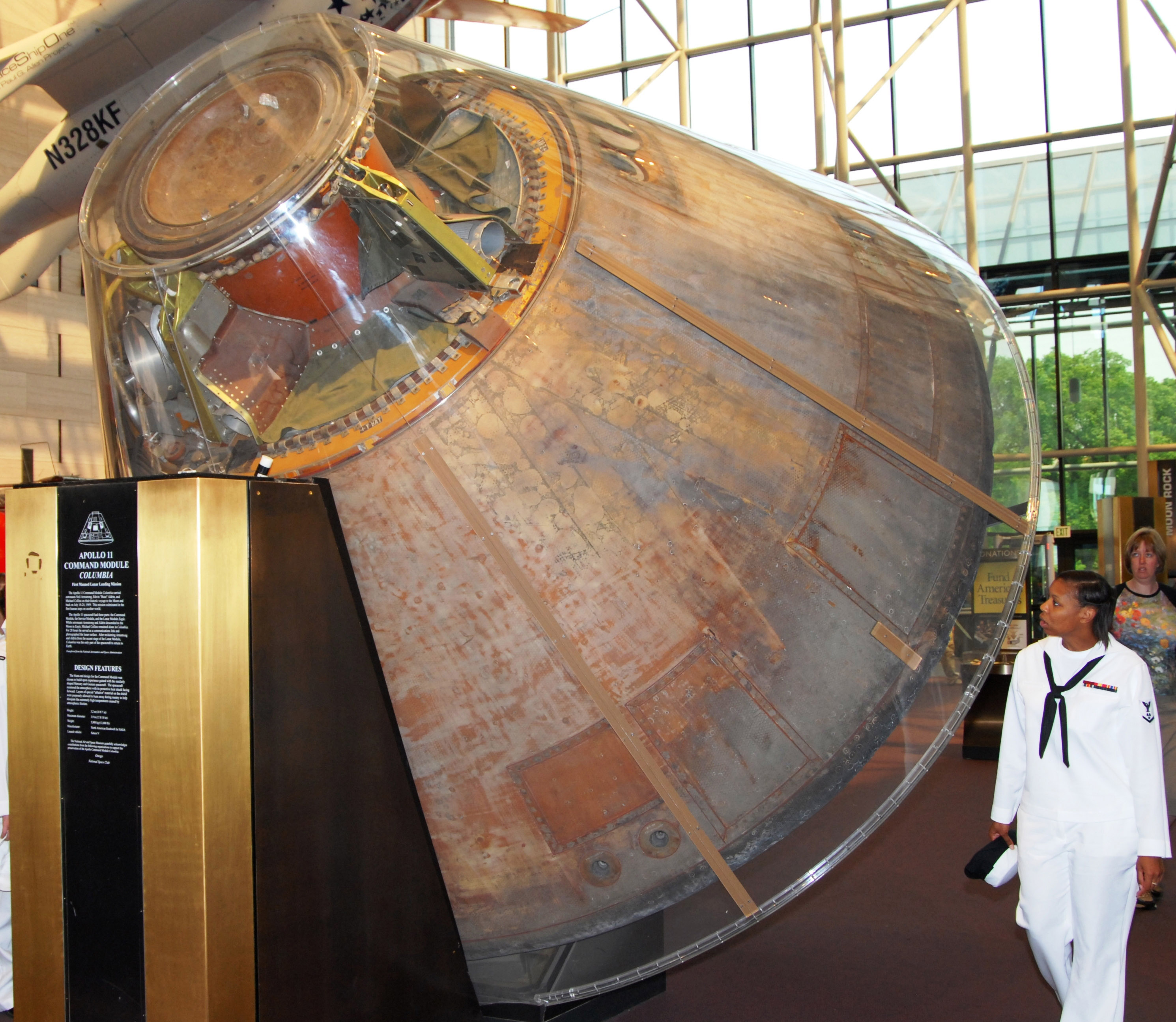 WASHINGTON (May 16, 2007) – Machinist’s Mate 3rd Class Davida Edwards examines the Apollo 11 Command Module in the lobby of the National Air and Space Museum. Edwards was one of 14 Precommissioning Unit George H.W. Bush (CVN 77) Sailors touring the museum as part of the command’s weekly heritage tours of the nation’s capital. U.S. Navy photo by Chief Mass Communication Specialist Aaron Strickland (RELEASED)